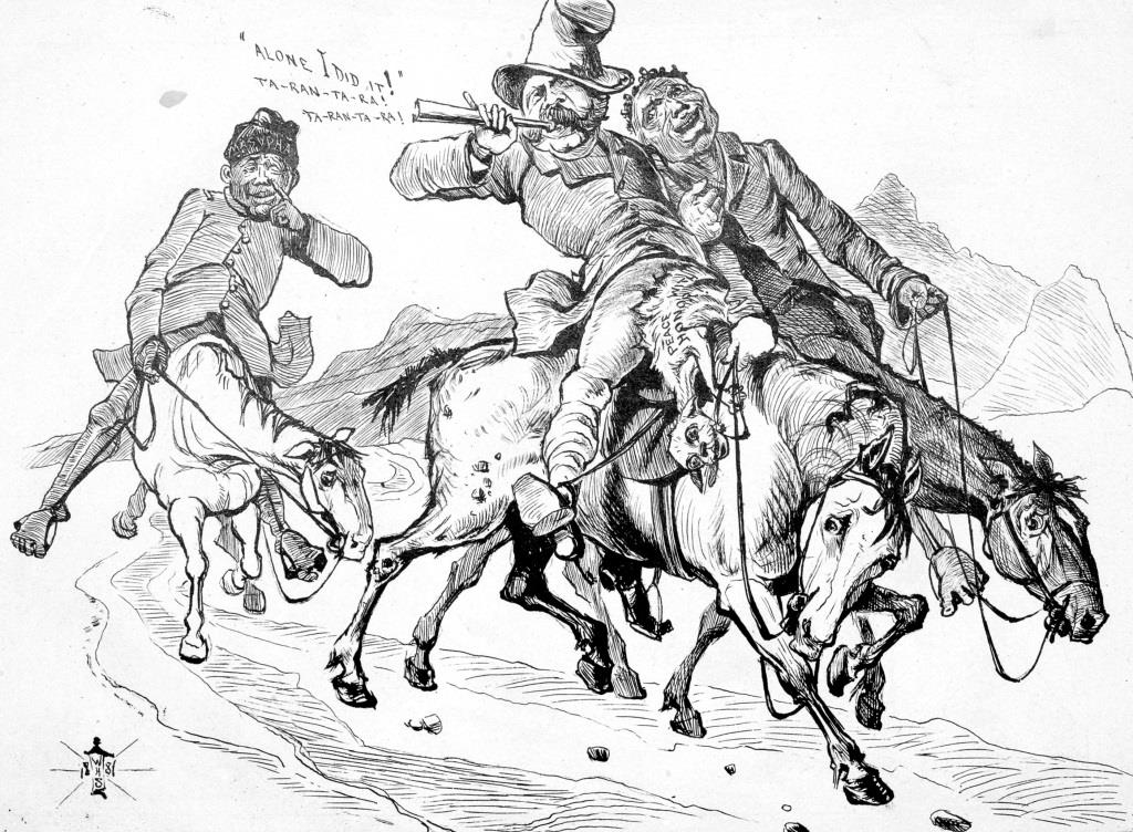 Jacobus W Sauer. Liberal Afrikaans politician of Cape Colony caricatured by the racist Lantern newspaper.